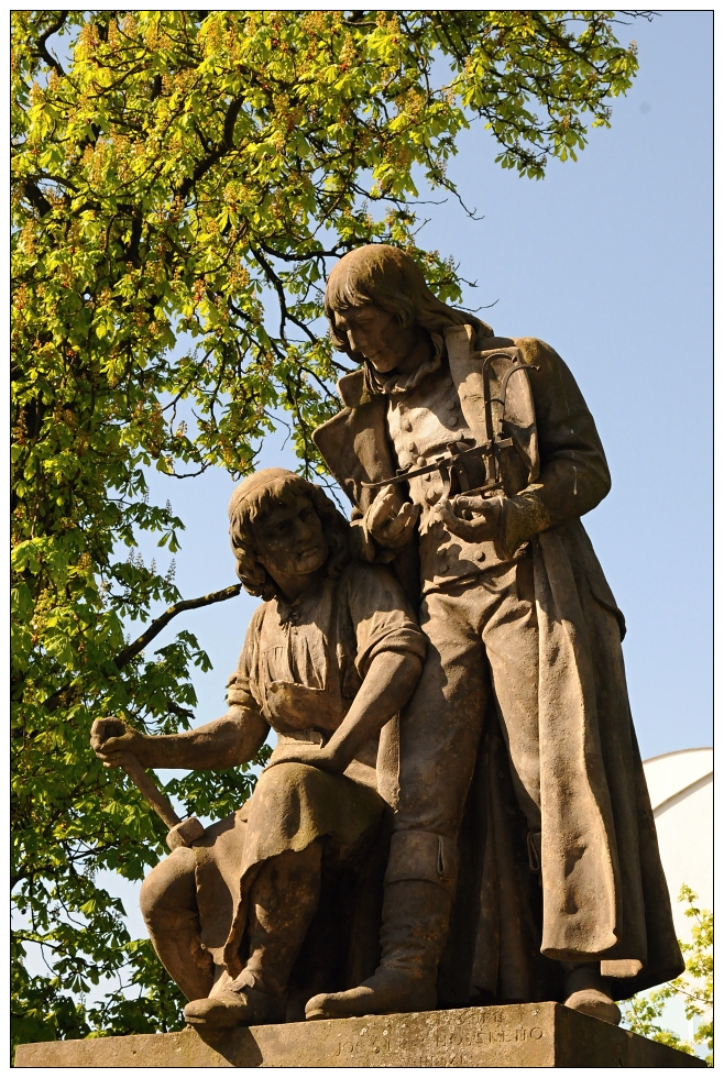 Statue of Veverka cousins in Pardubice, Czech Republic.